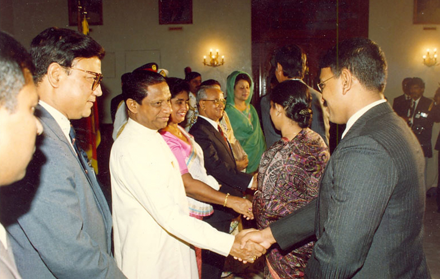 Mohammad Mosaddak Alimet withPresident of SriLanka Ranasinghe Premadasa at Bangabhaban in Dhaka, Bangladesh in 1992.